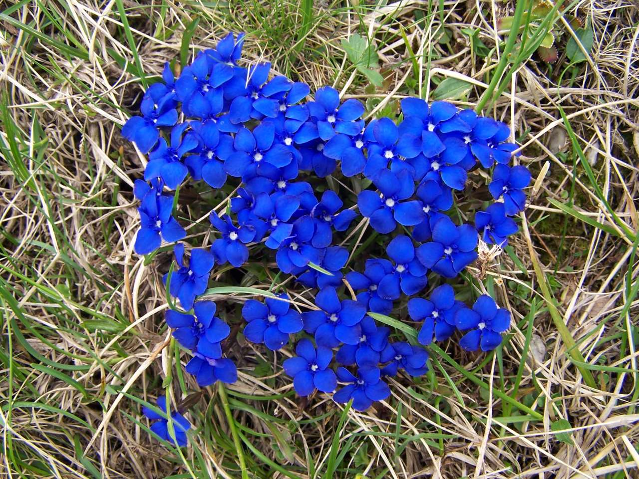 Gentiana verna (pl. goryczka wiosenna), habitat: Tatra Mountains, Czerwone Wierchy